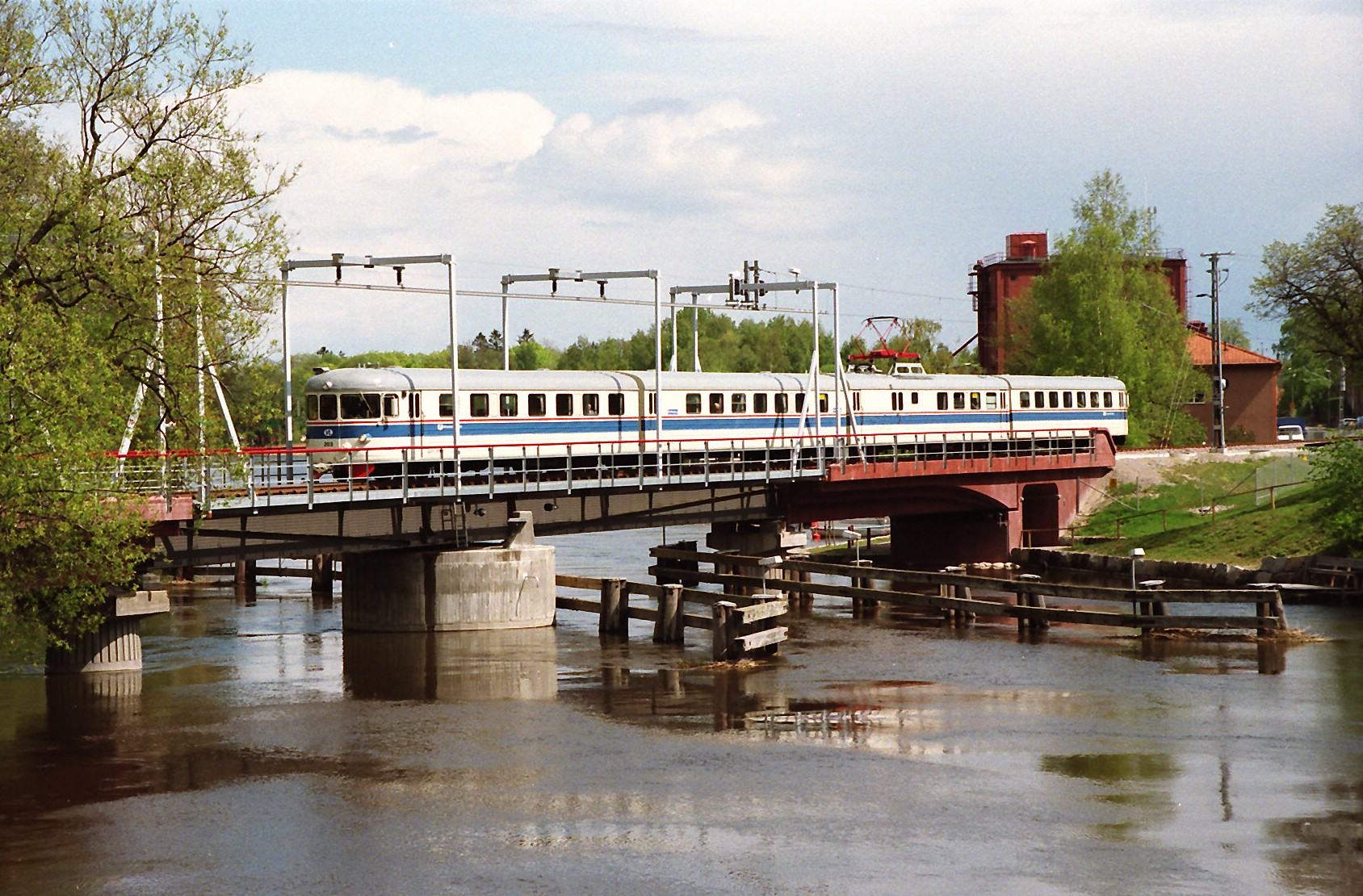 TGOJ EMU class X20 no 203 in Kungsör